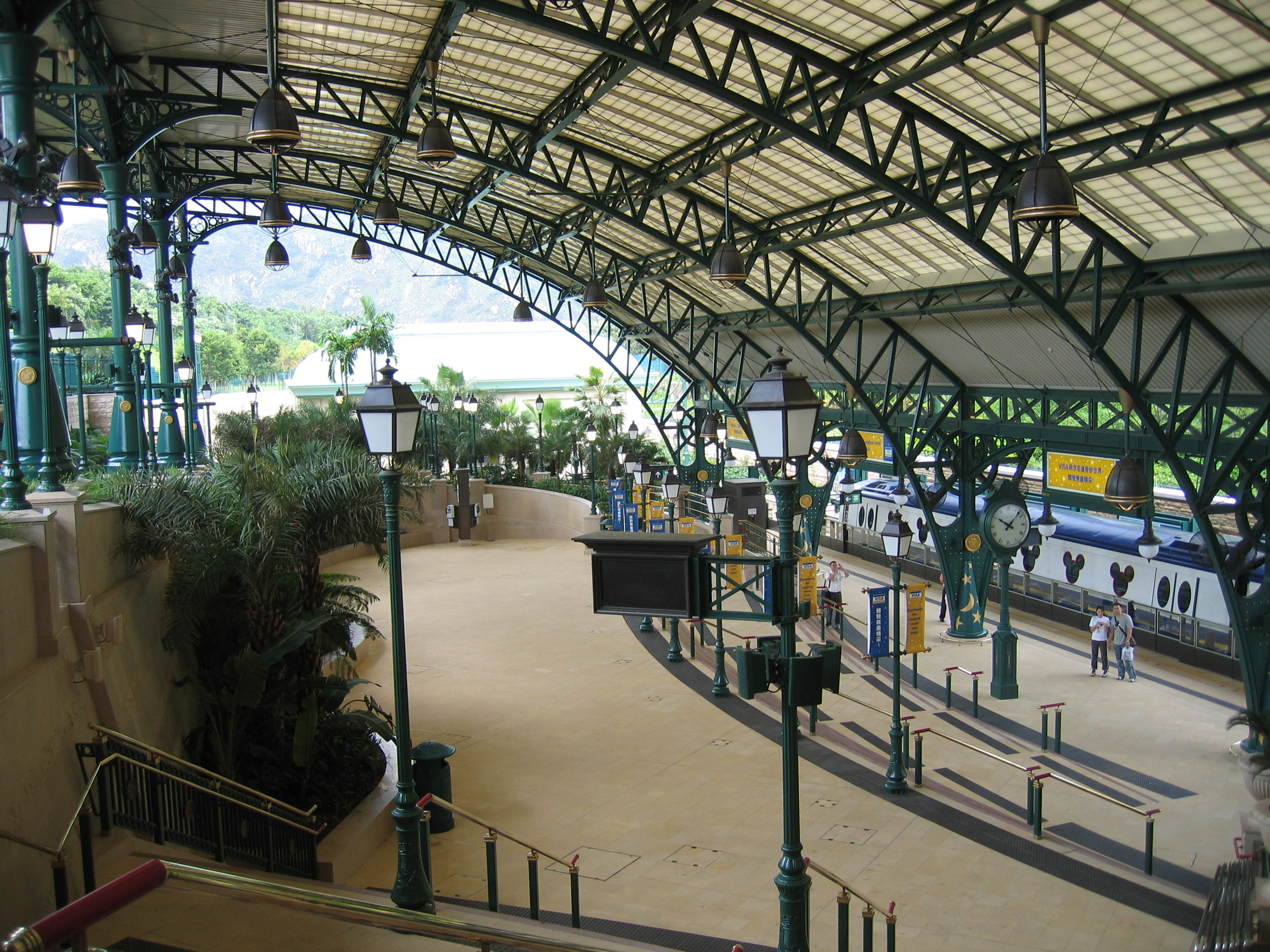 Image is a photo of the Disneyland Resort Station in Hongkong. It is taken by Hui Lok Him (doggie82) and he has the copyright.